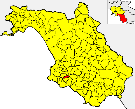 Locator map of the municipality of Omignano (red) within the Province of Salerno